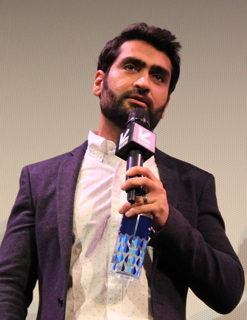 Kumail Nanjiani at SXSW 2019.